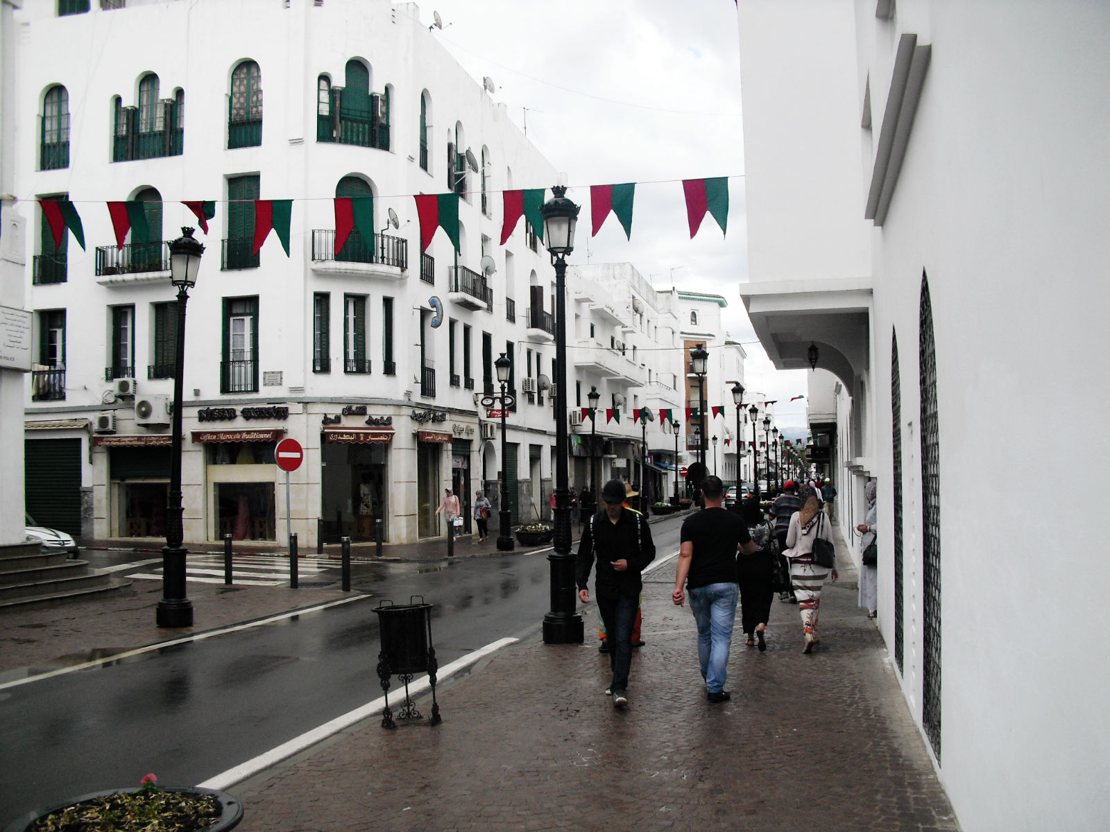 This is Tetouan city in a rainy weather.